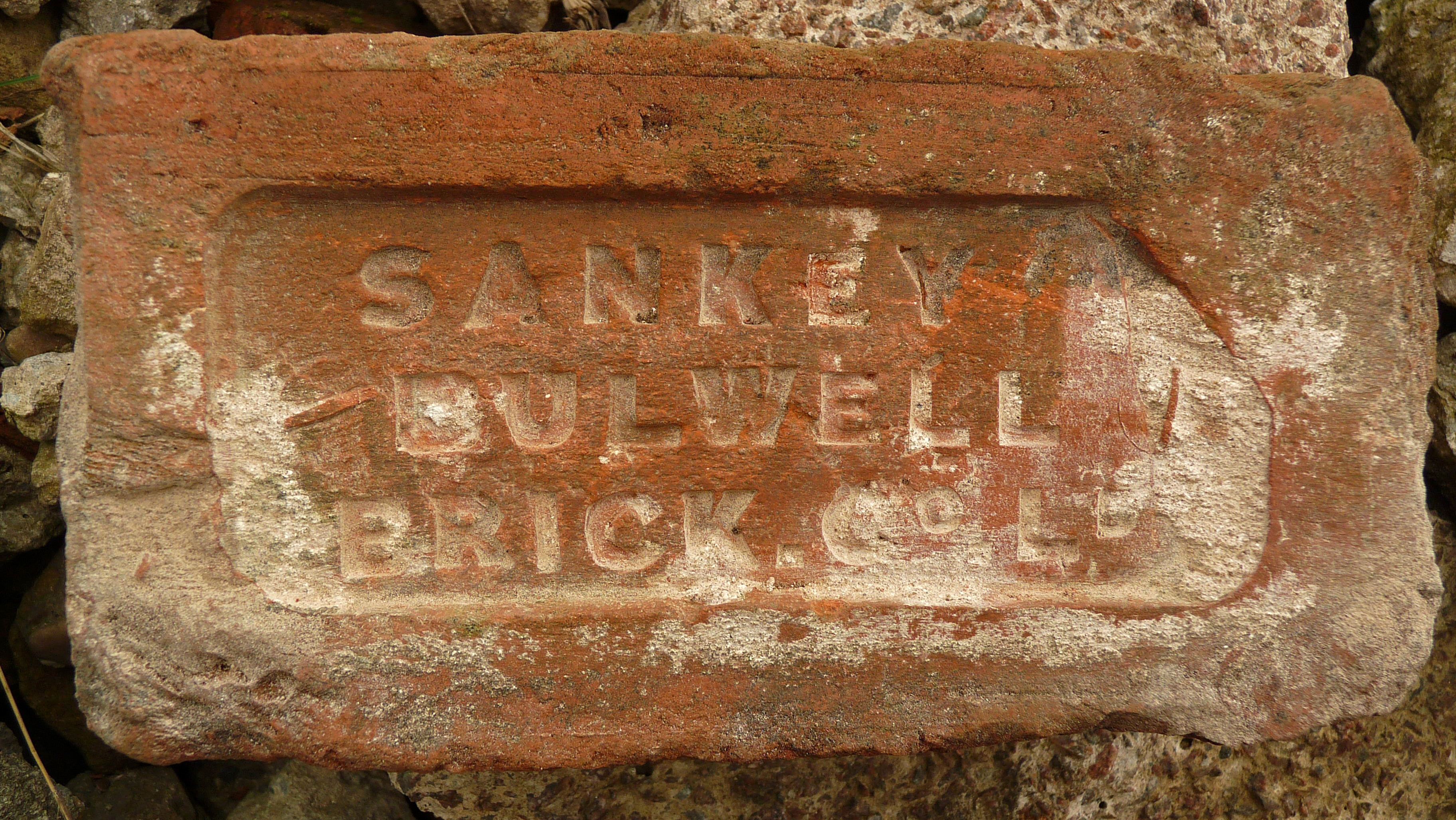 Sankey Bulwell Brick Company Limited